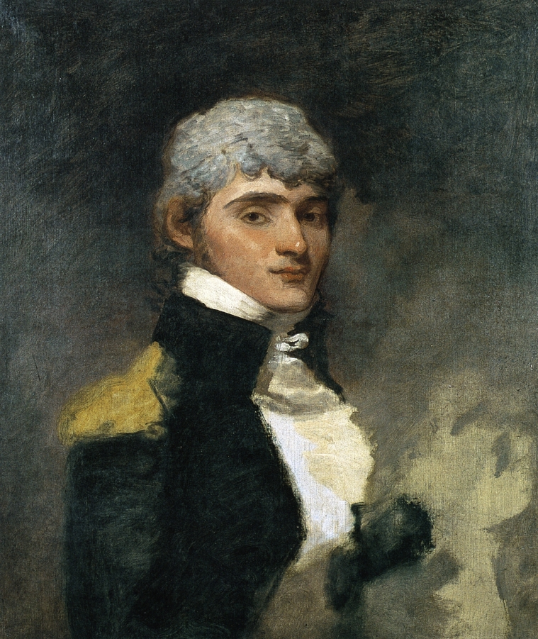 "Jérôme Bonaparte," by Gilbert Stuart, oil on canvas. 28.25 in. x 23.5 in. Private collection. Image courtesy of The Athenaeum.